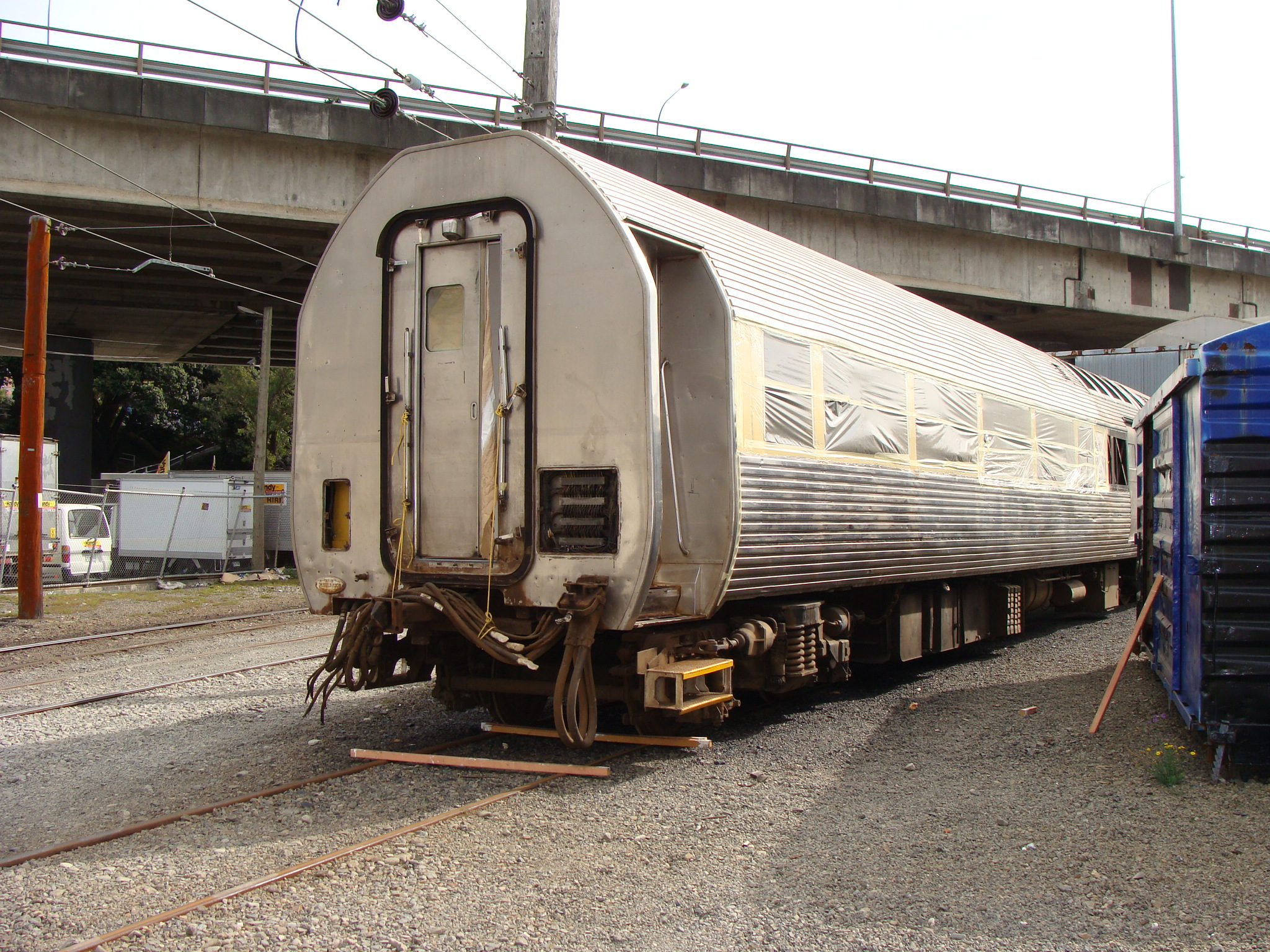 Silver Fern railcar carriage in the Wellington railway station yard.